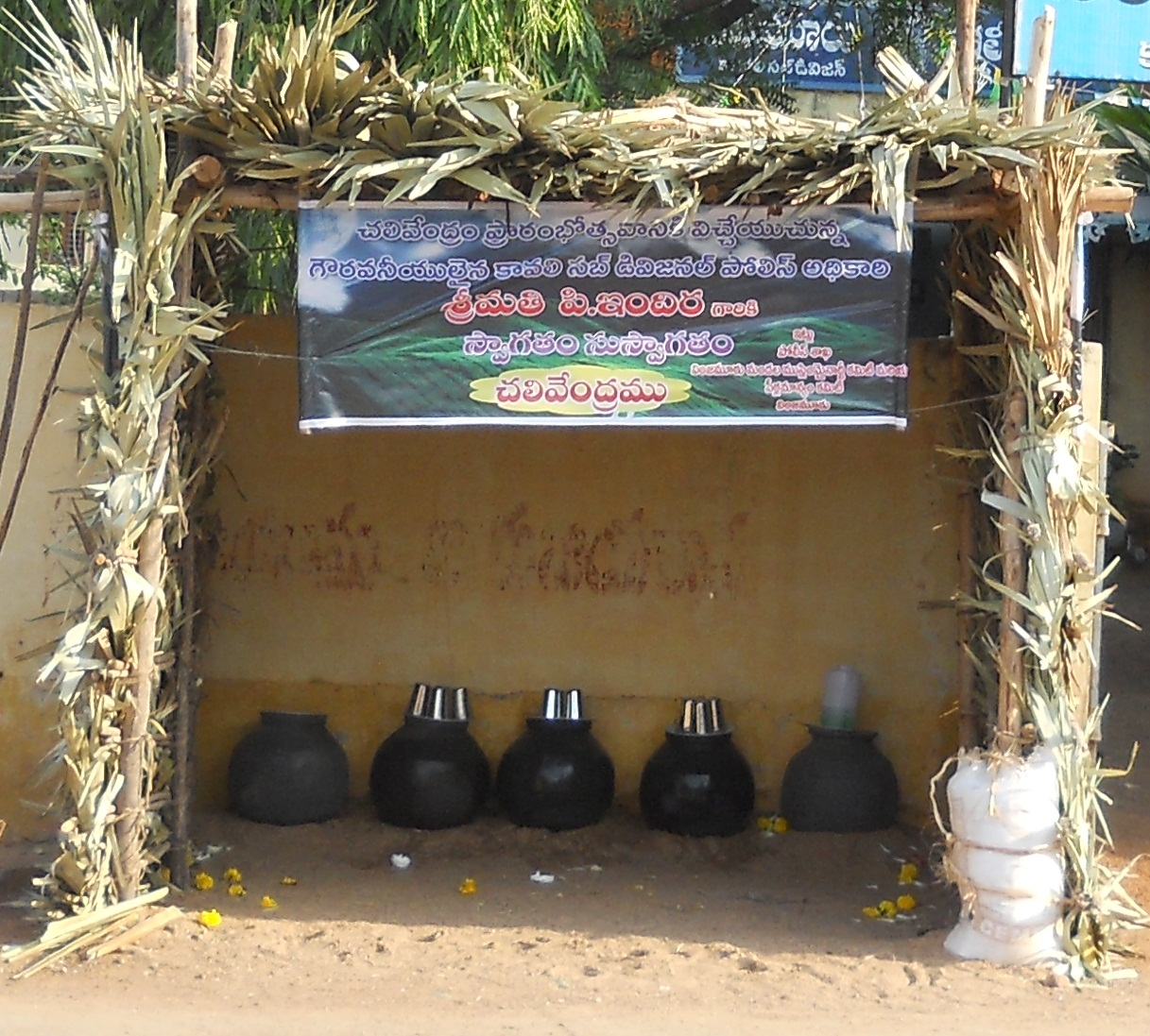 Chalivendram